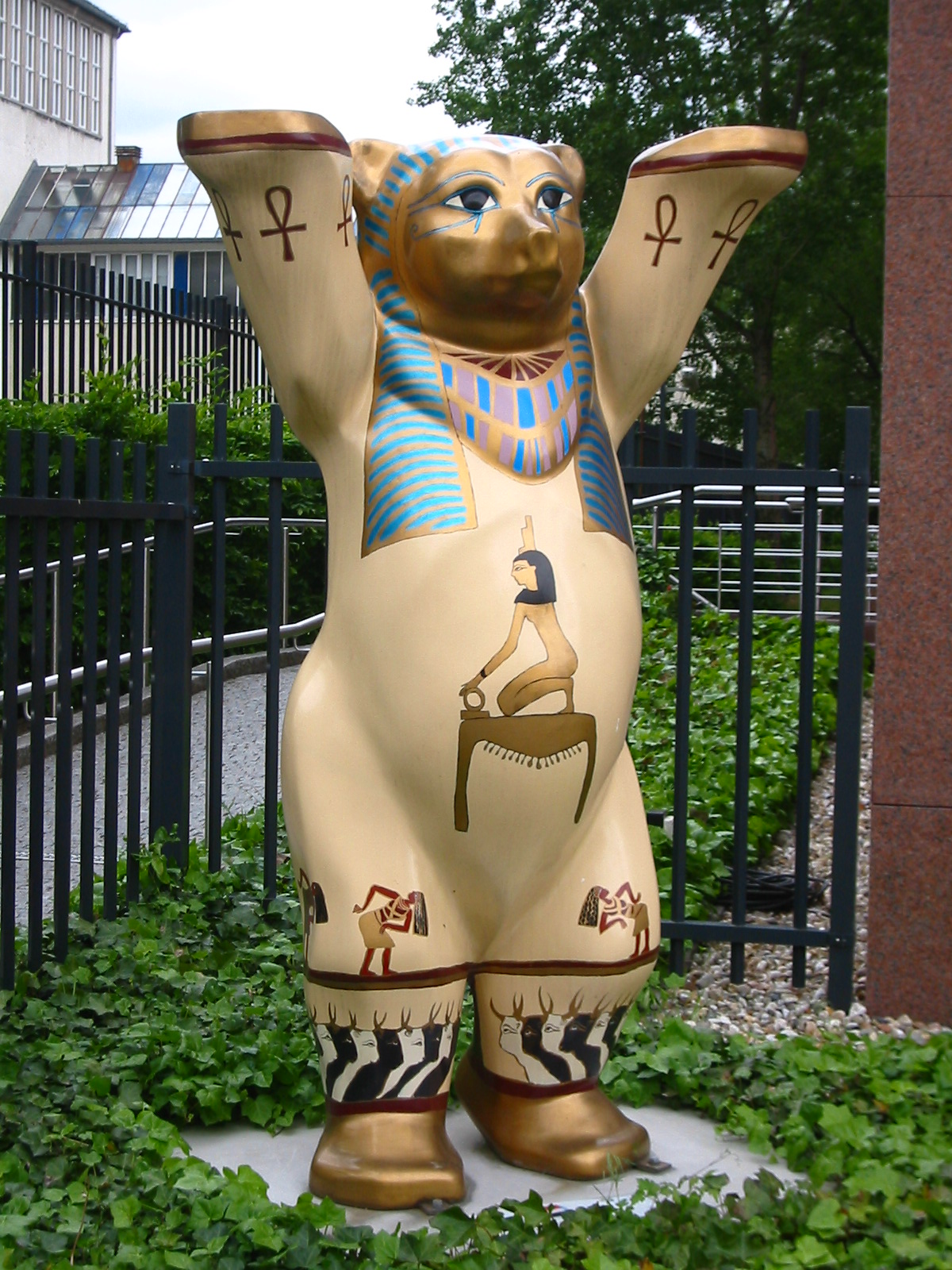 Buddy Bear: name unknown Standort/Location: in front of Egyptian embassy, Stauffenbergstr. 6, Berlin-Tiergarten